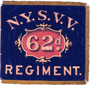 62nd Regiment, New York Volunteer Infantry Flank Marker, New York State Military Museum